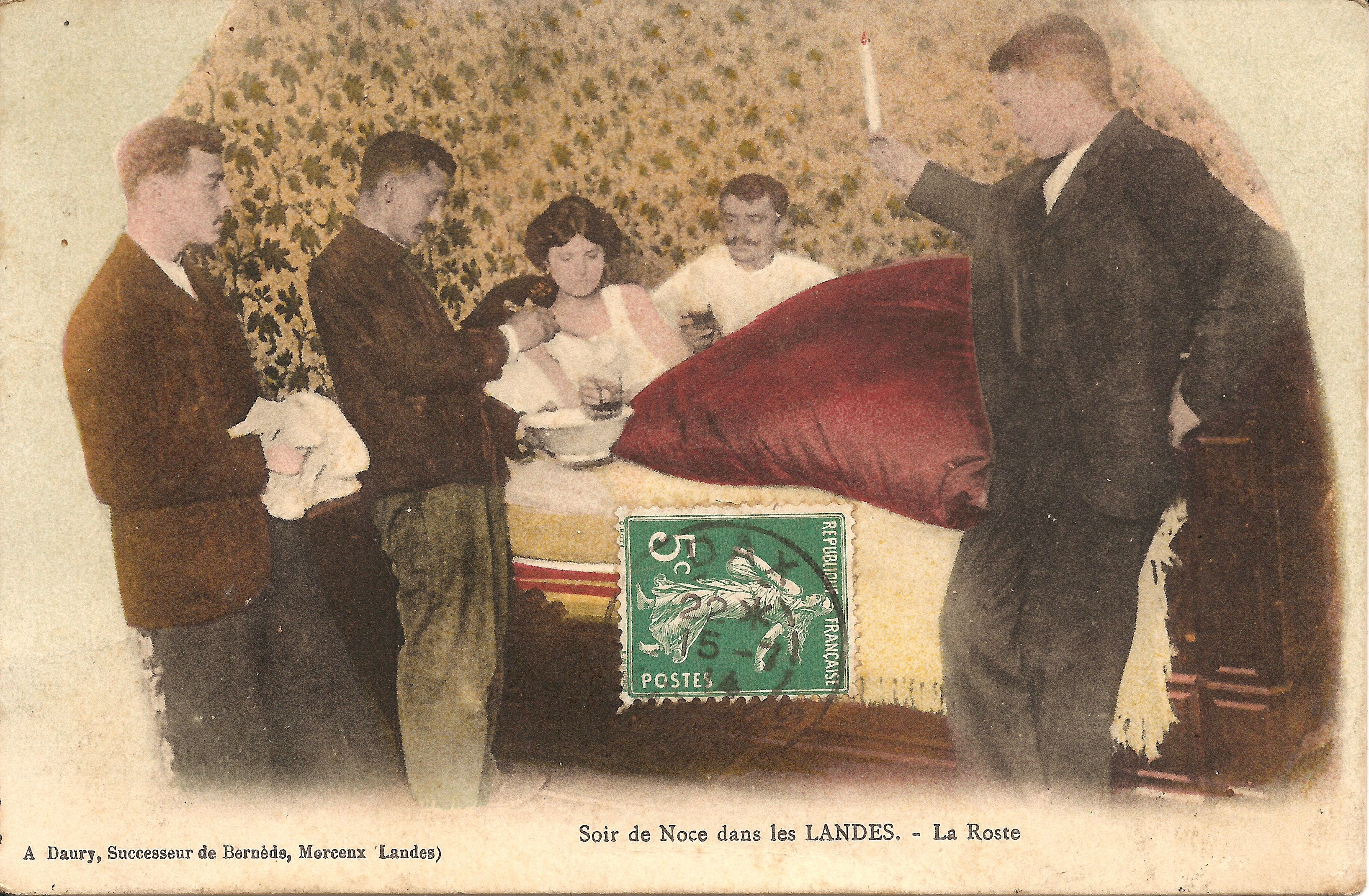 Wedding evening in the Landes (department) (France) : the Roste. Three people bring la roste (roasted bread soaked in sweet wine) to a couple of newlyweds in bed. Map postally used on july 16th 1914 (!). On the back, my grandfather wrote to his future wife (and my grandmother): "When will be our turn?")